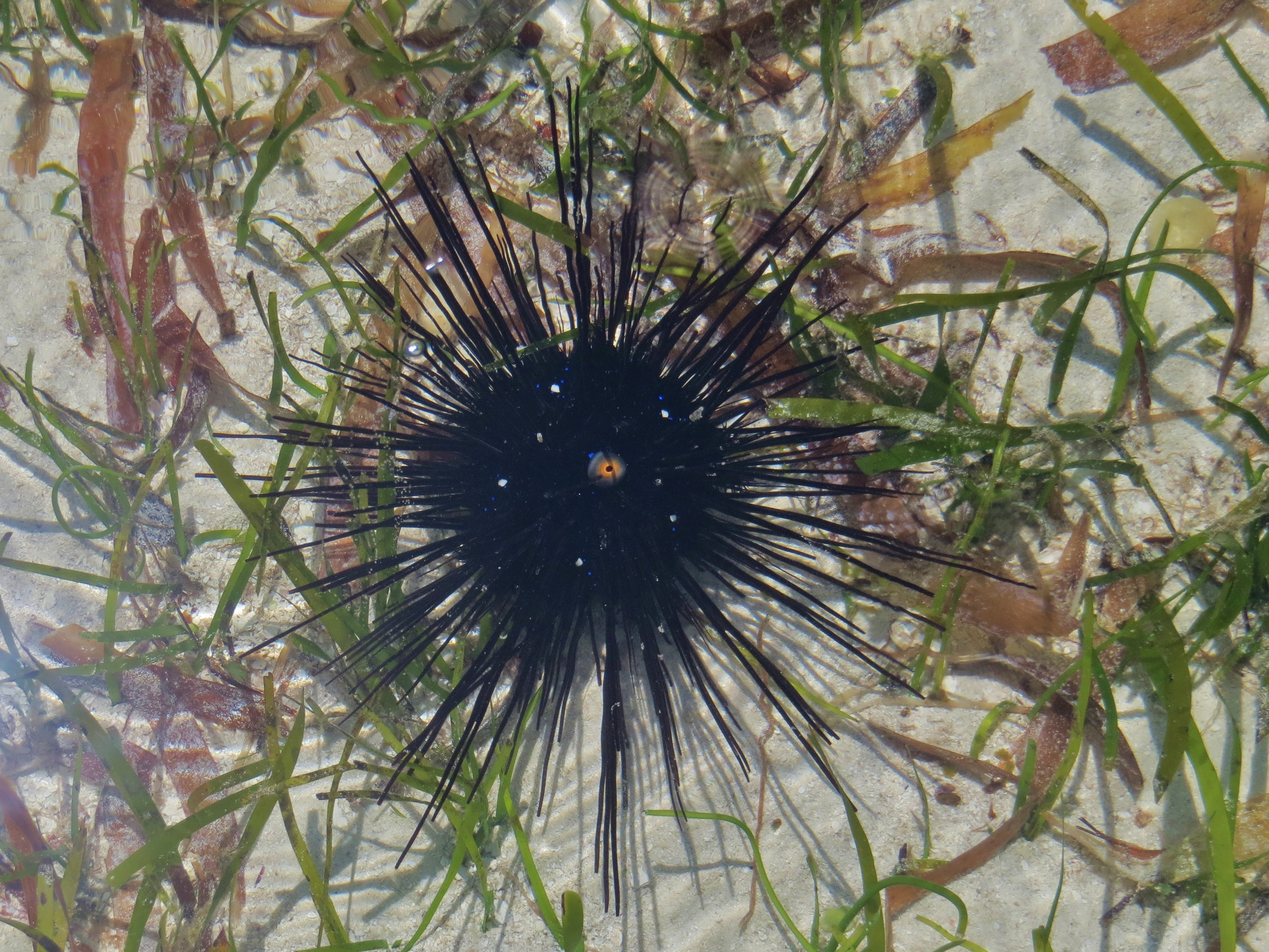 Sea urchin Diadema setosum seen at Kenyatta Beach (Mombasa, Kenya).